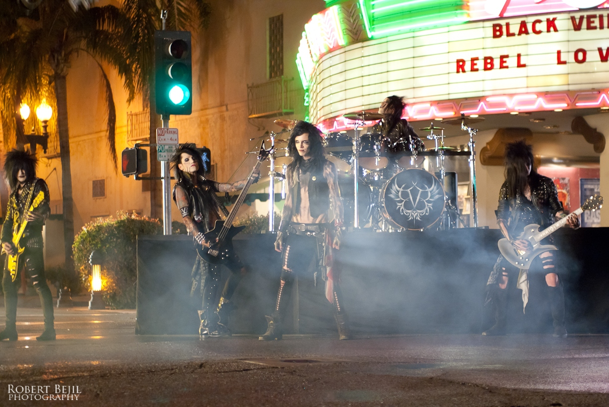 Behind the scenes shots of Black Veil Brides shooting their music video for "Rebel Love Song".